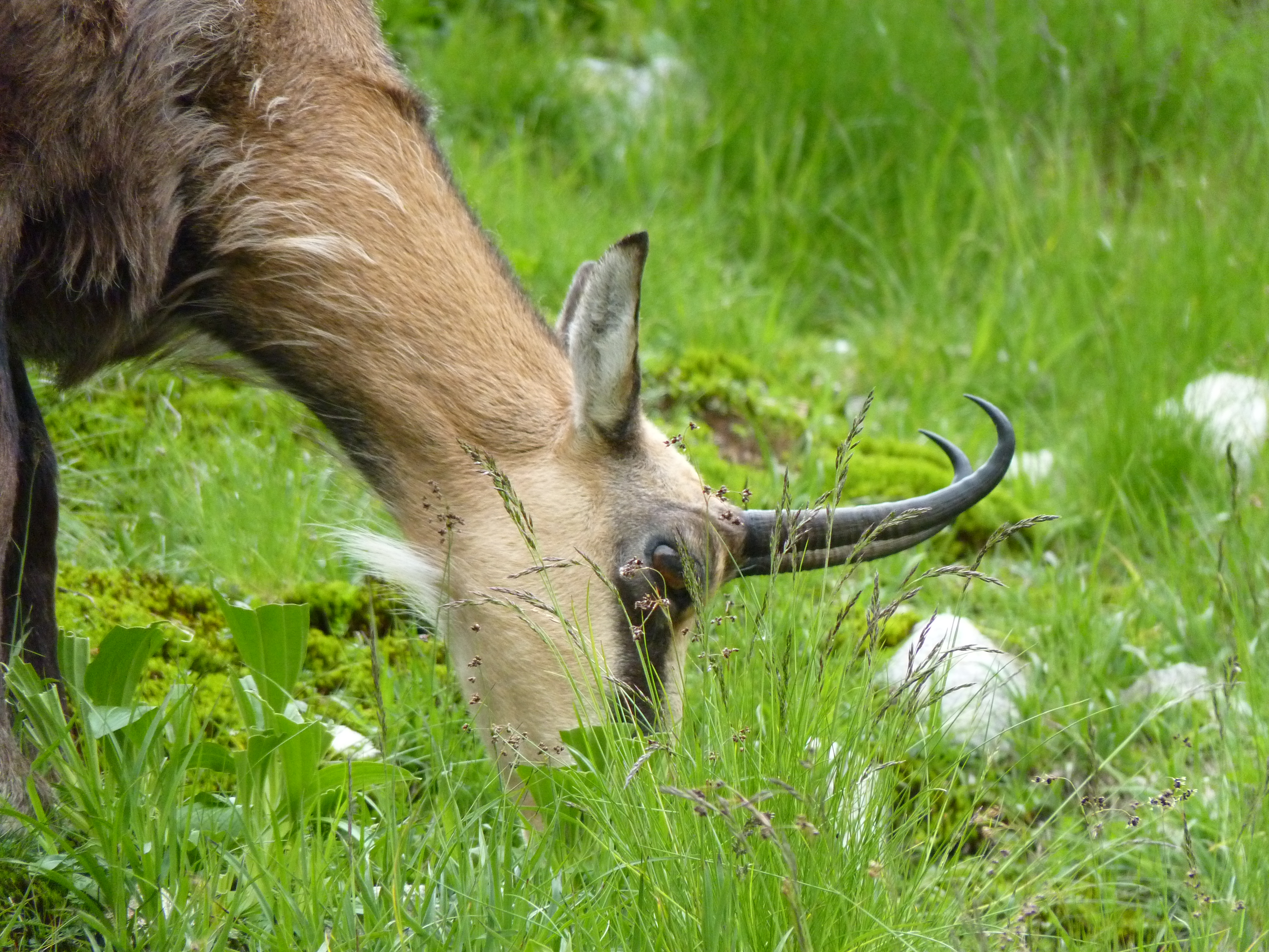 Dolina Bielej vody - path from "Zelene pleso" to "Jahnaci stit", High Tatras, Slovakia